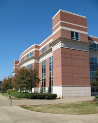 The northwest corner of the James E. Walker Library at Middle Tennessee State University